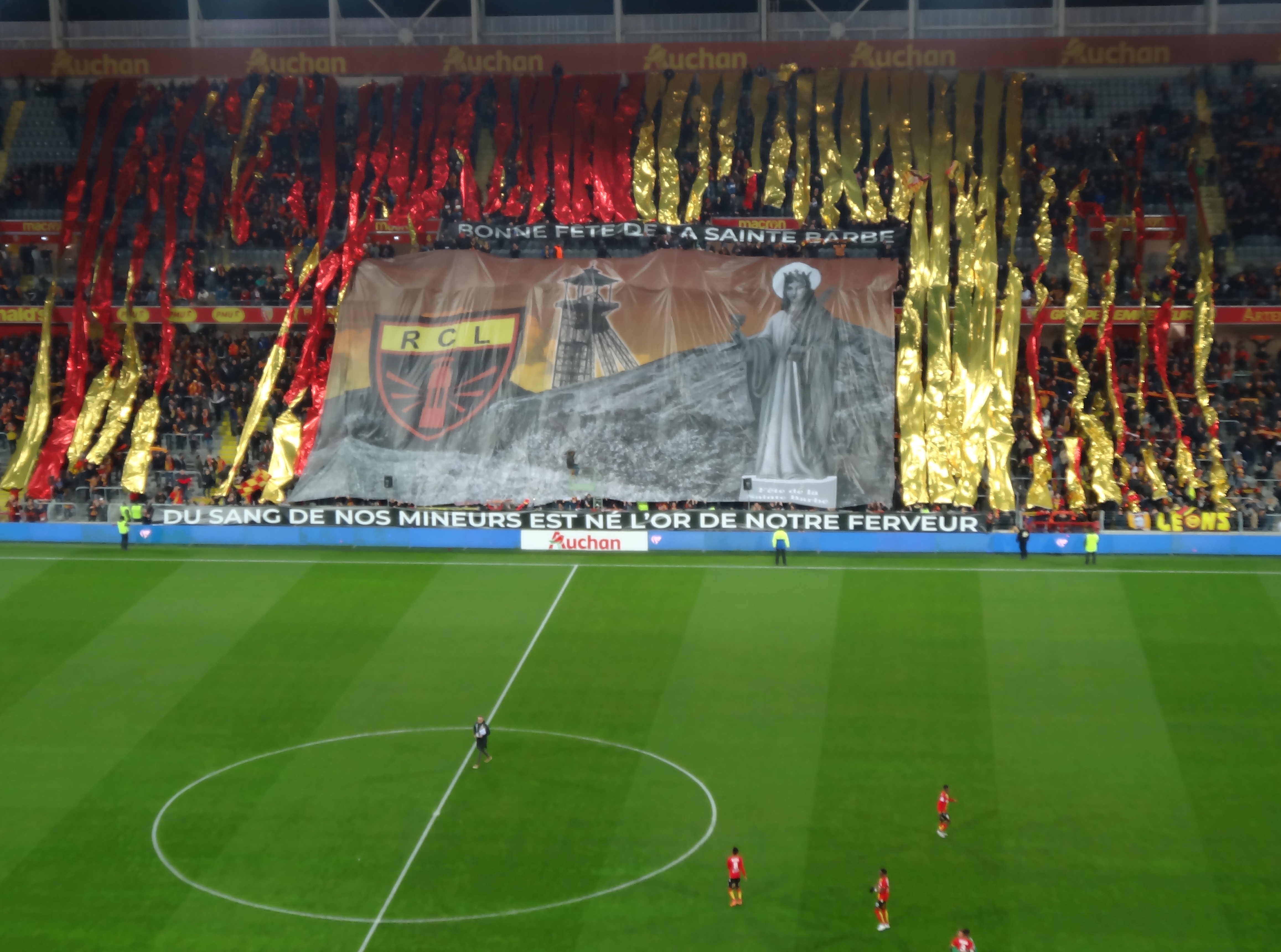 RC Lens supporters